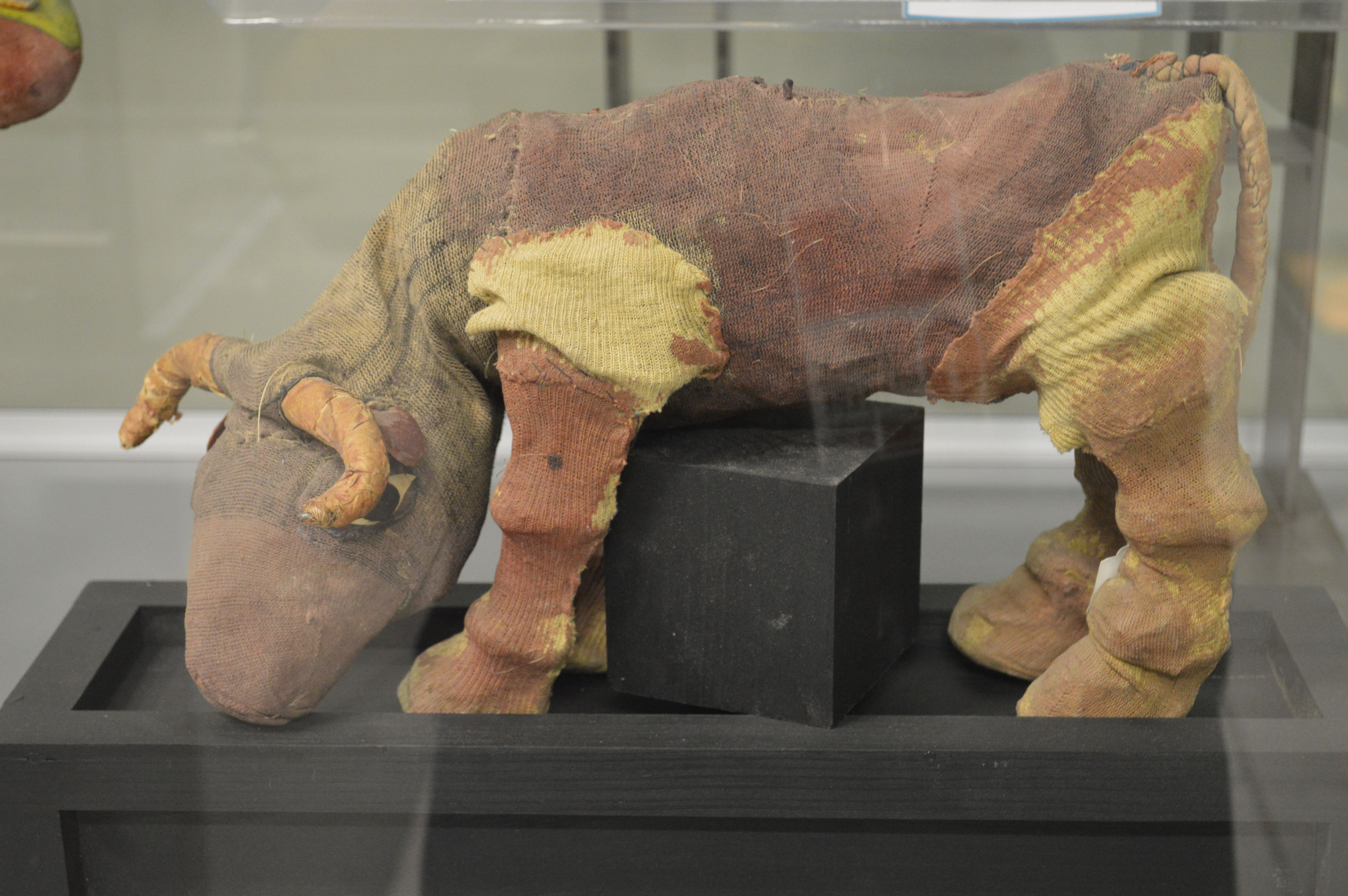 Bull puppet by Dolores Velazquez de Cueto on display at the National Puppet Museum in Huamantla, Tlaxcala, Mexico. This puppet was made at the last minute for the International Puppet Festival from the author's own socks.